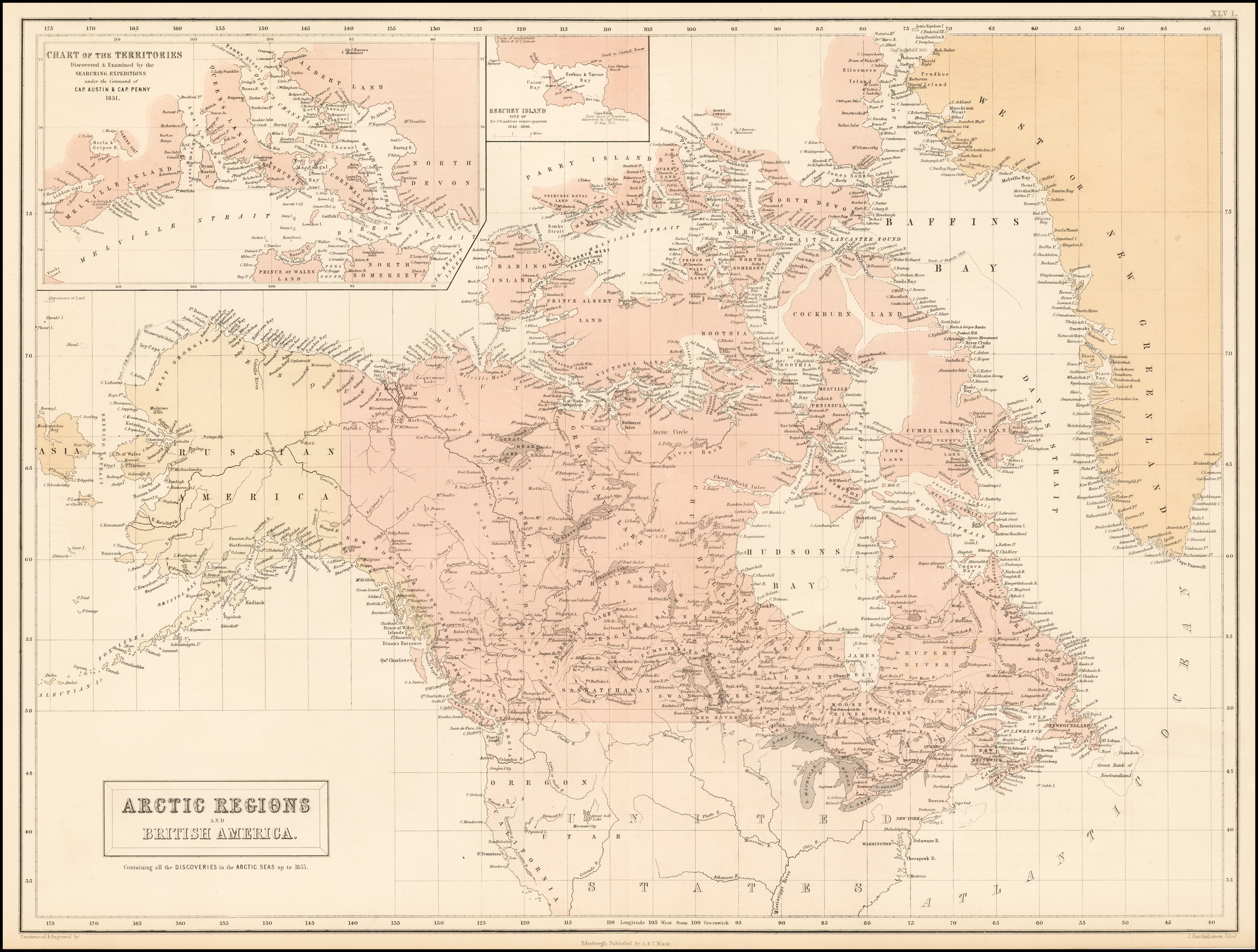 Adam & Charles Black: Arctic Regions and British America Containing Discoveries in the Arctic Seas up to 1853